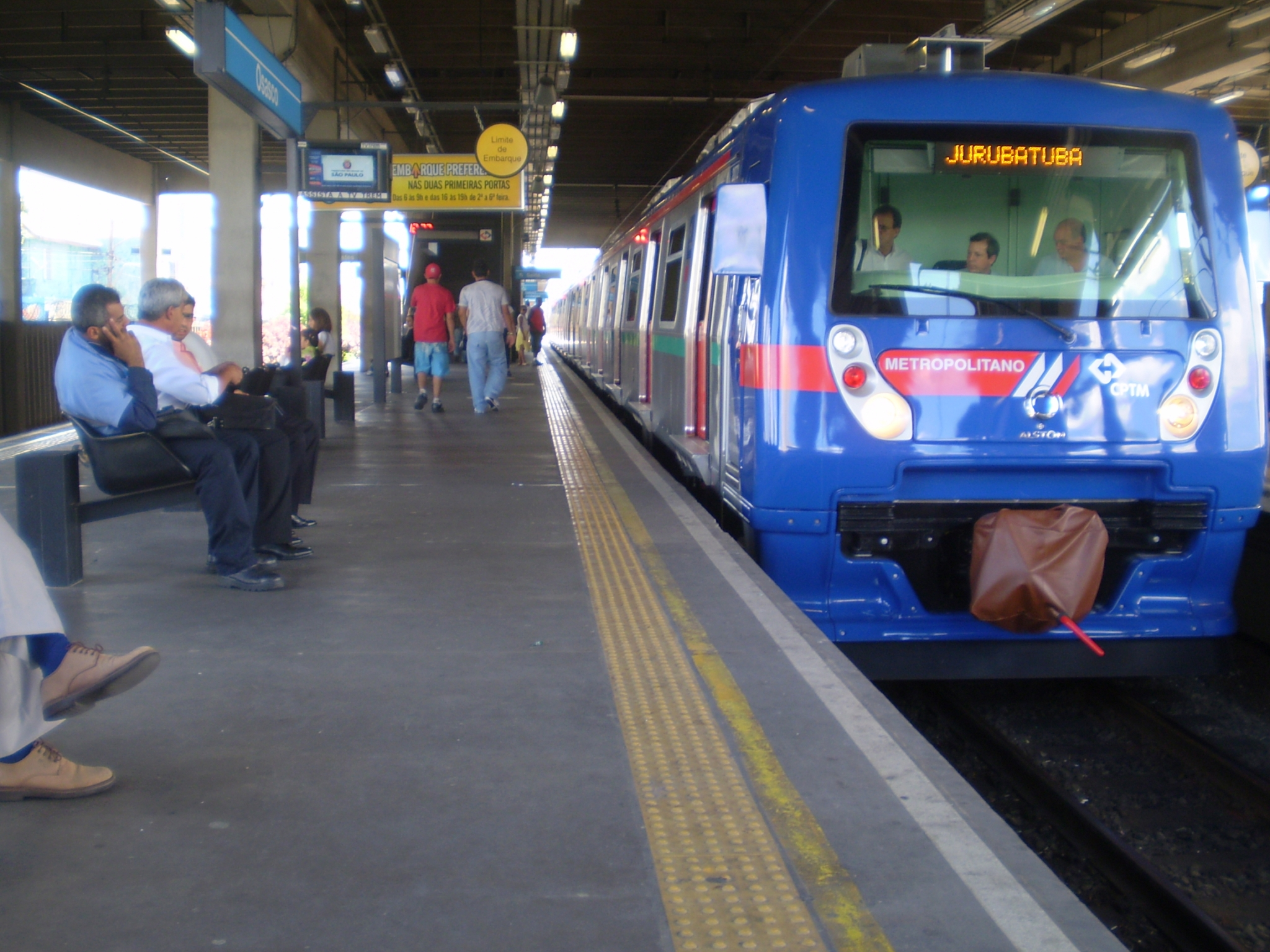 Photo of Osasco Station